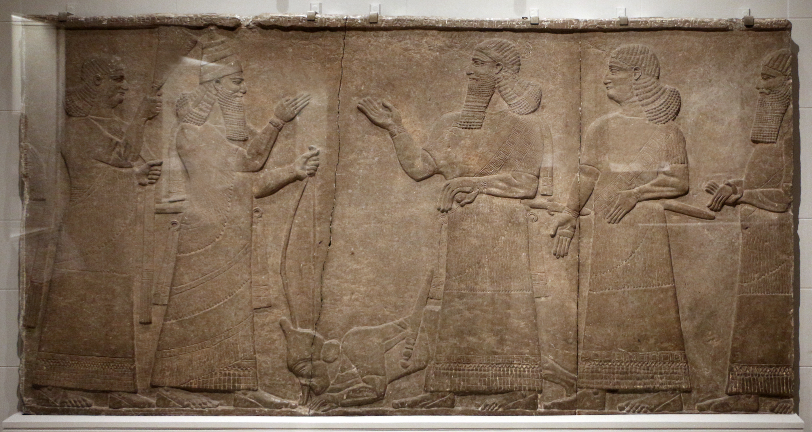 The Assyrian King Tukul-apil-esharra III (also called Tiglath-pileser III) Receiving Homage, 745 - 727 BCE. Near Eastern antiquities in the Detroit Institute of Arts Description